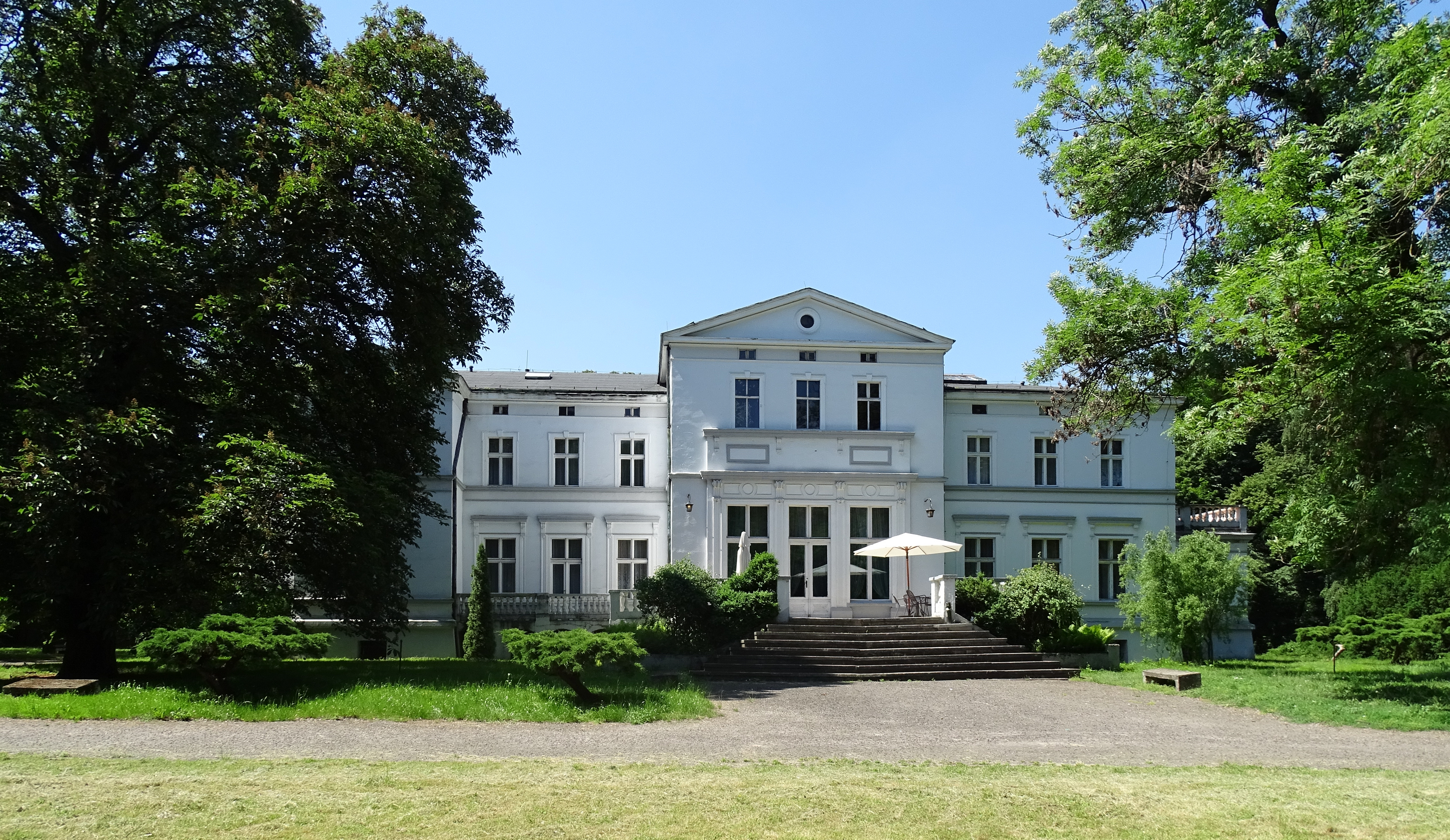 Brodnica, Greater Poland. The manor house from 1890.